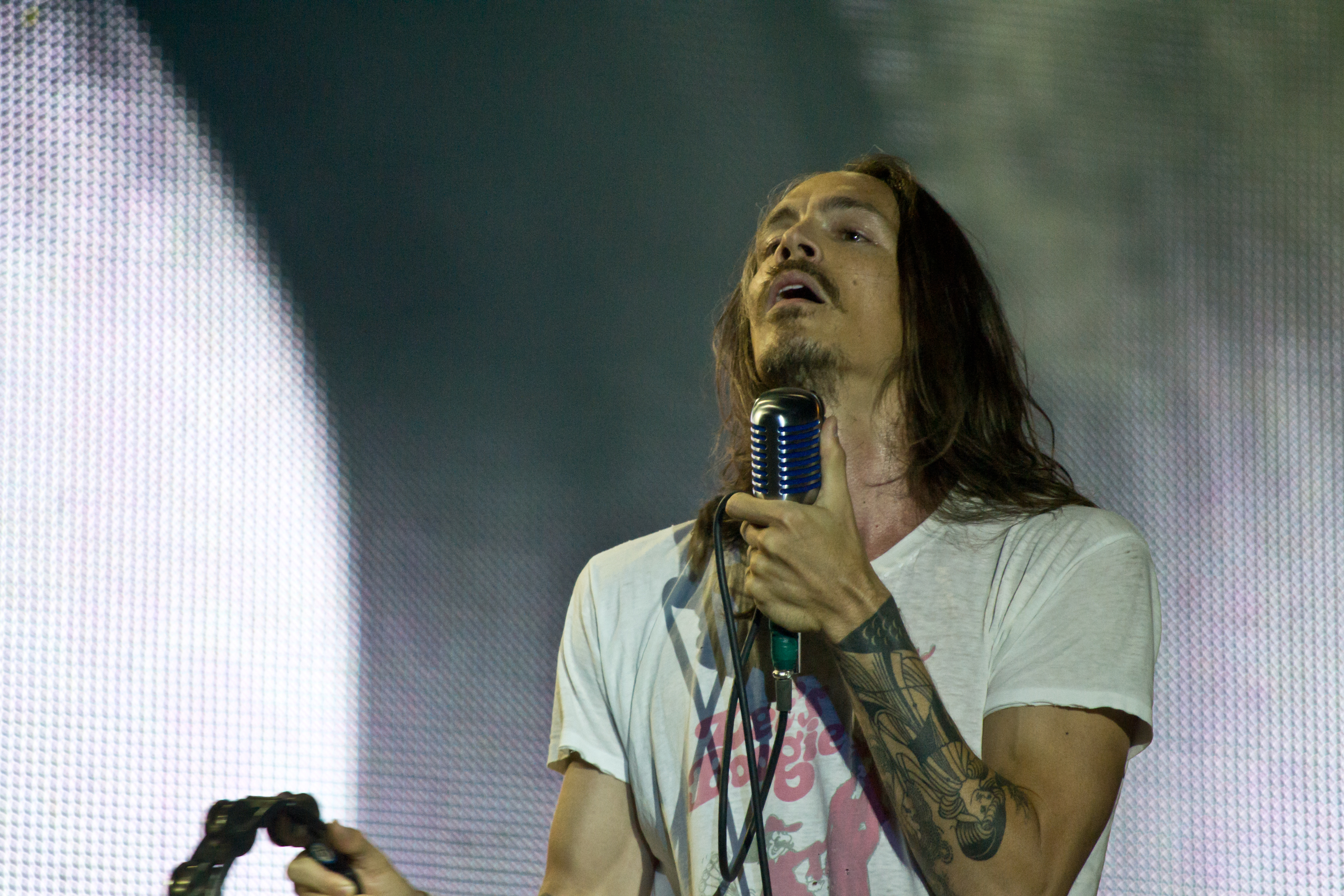 Incubus in Rock in Rio Madrid 2012.